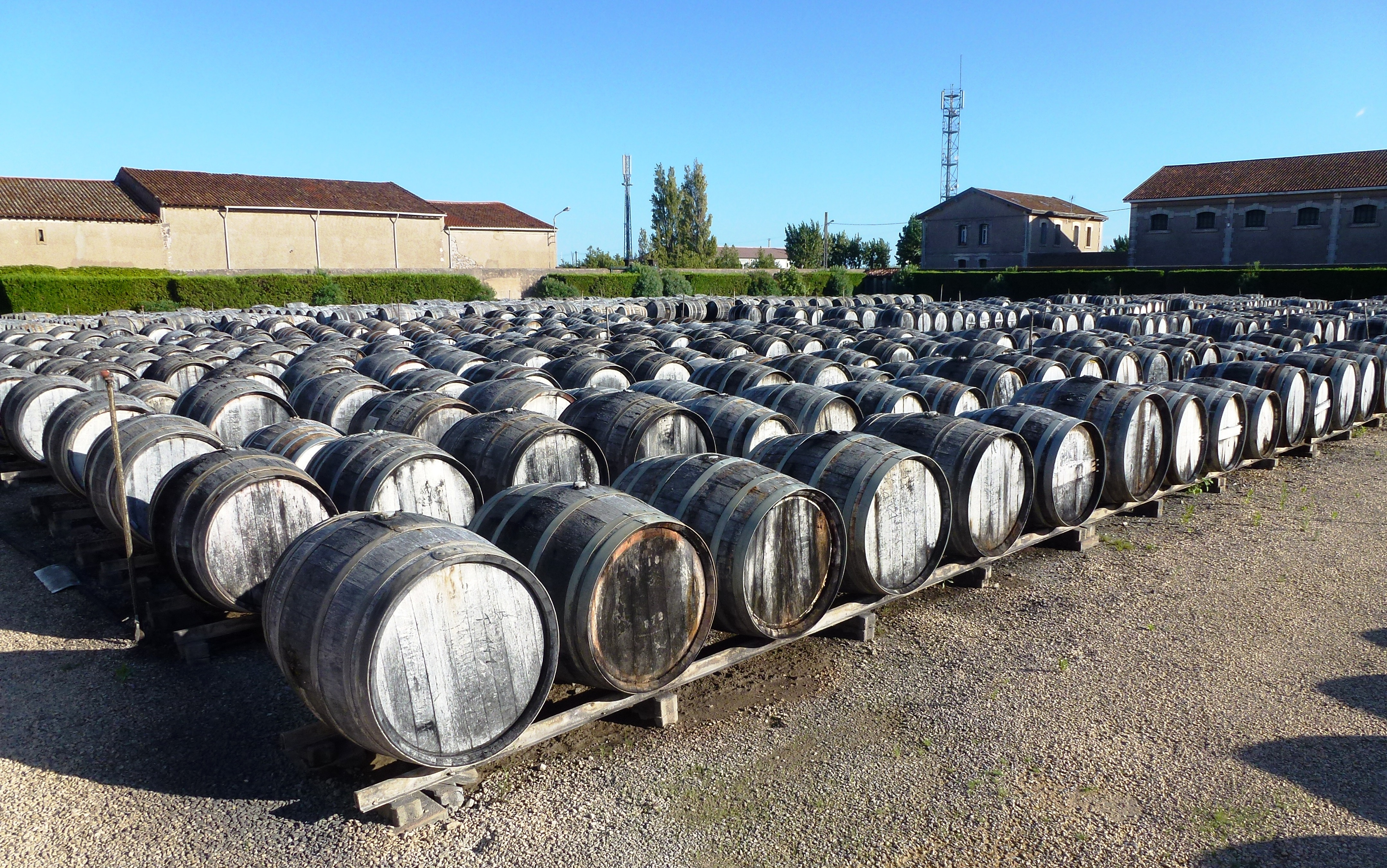 Vermouth Factory Noilly-Prat in Marseillan, France - wine barrels for maturing in open air